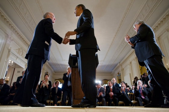 U.S. President Barack Obama (center) welcomes William M. Daley (left) as the new White House Chief of Staff in the East Room of the White House. Standing to the right is Pete Rouse, who had previously acted as the interim Chief of Staff.